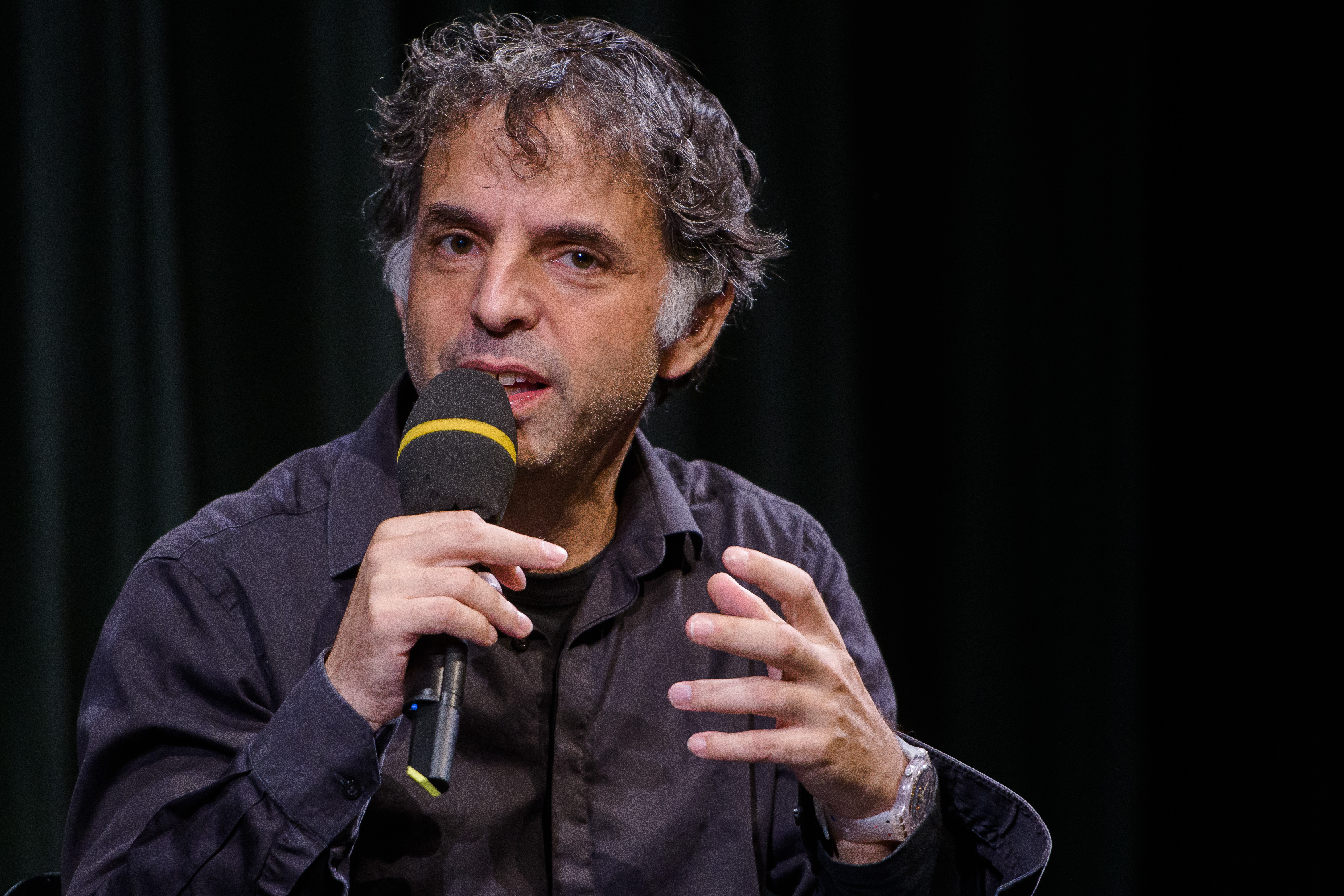 Etgar Keret, November 2016